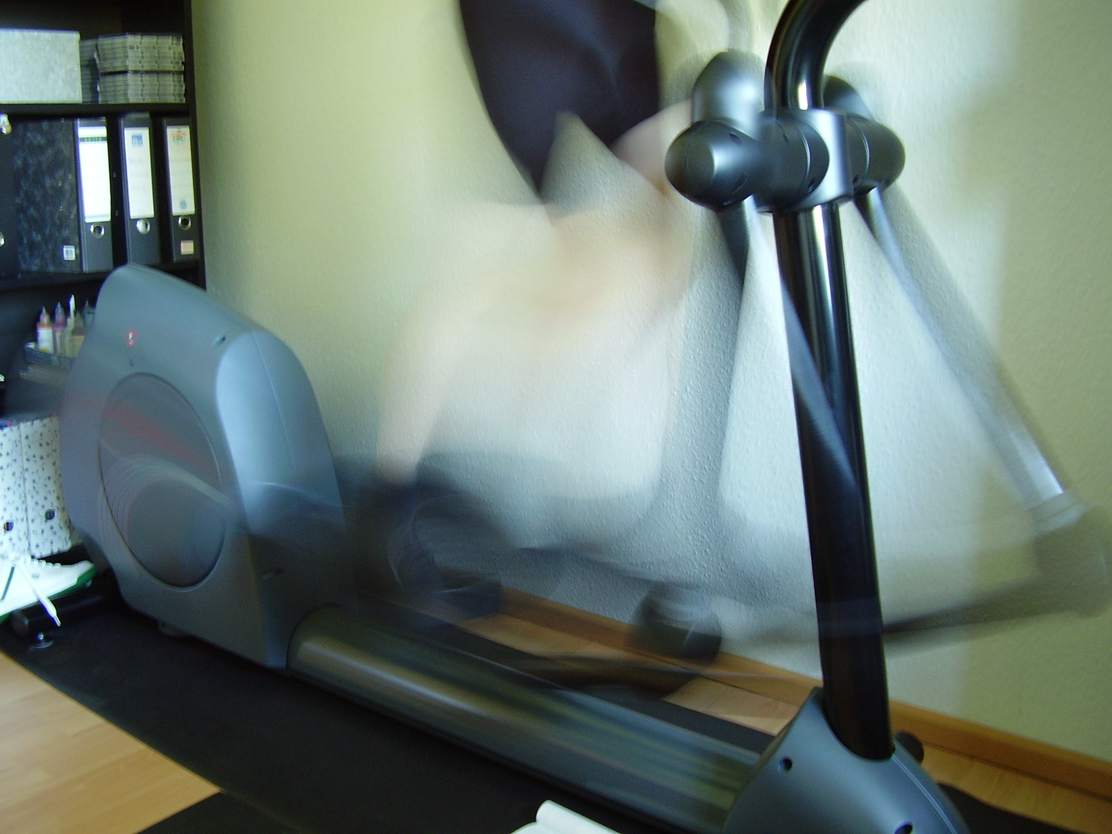 cross trainer